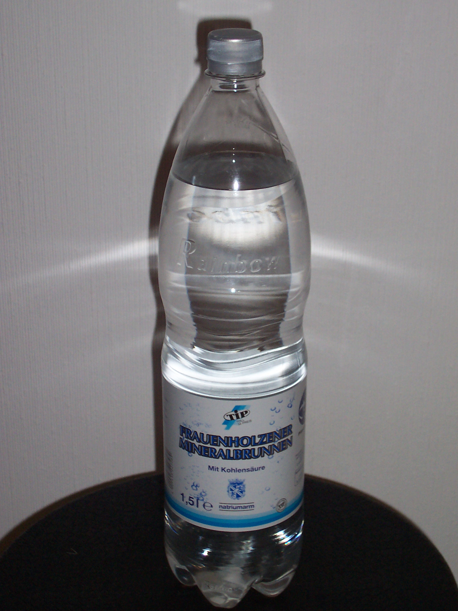 Depositable PET-Bottle from REAL